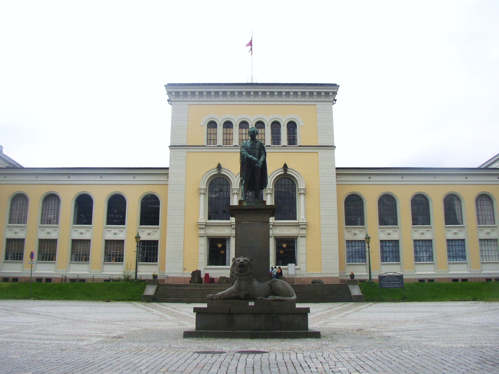 Bergen Museum, a part of The University of Bergen. The sculpture of Wilhelm Frimann Koren Christie in front of the building is by Christopher Borch.